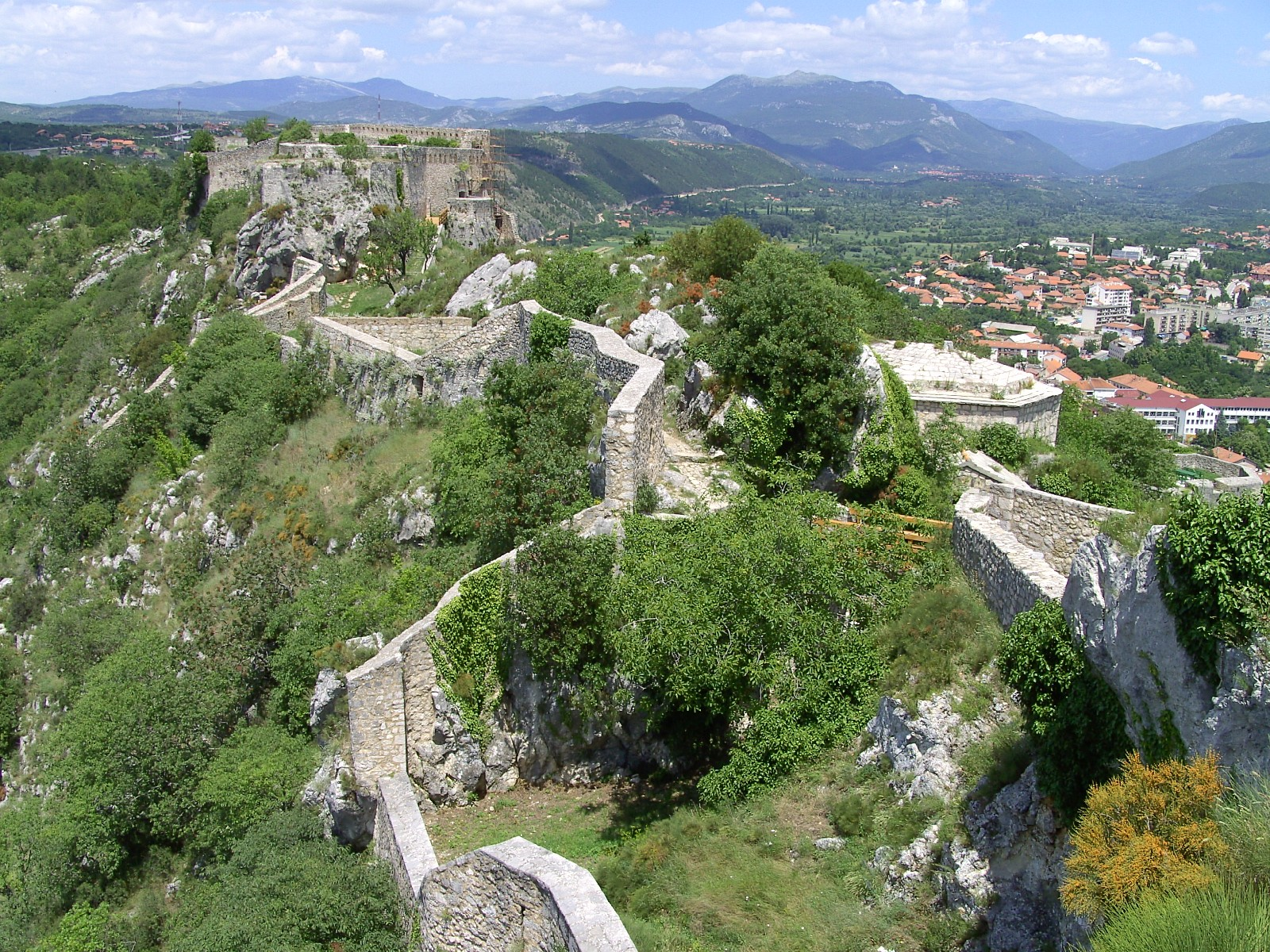 Town of Knin, Croatia